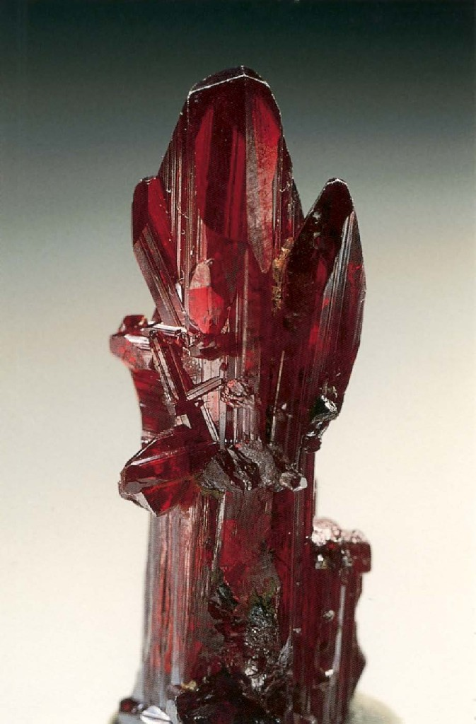 Proustite - Locality: Chañarcillo, Copiapó Province, Atacama Region, Chile - specimen height is 4 cm